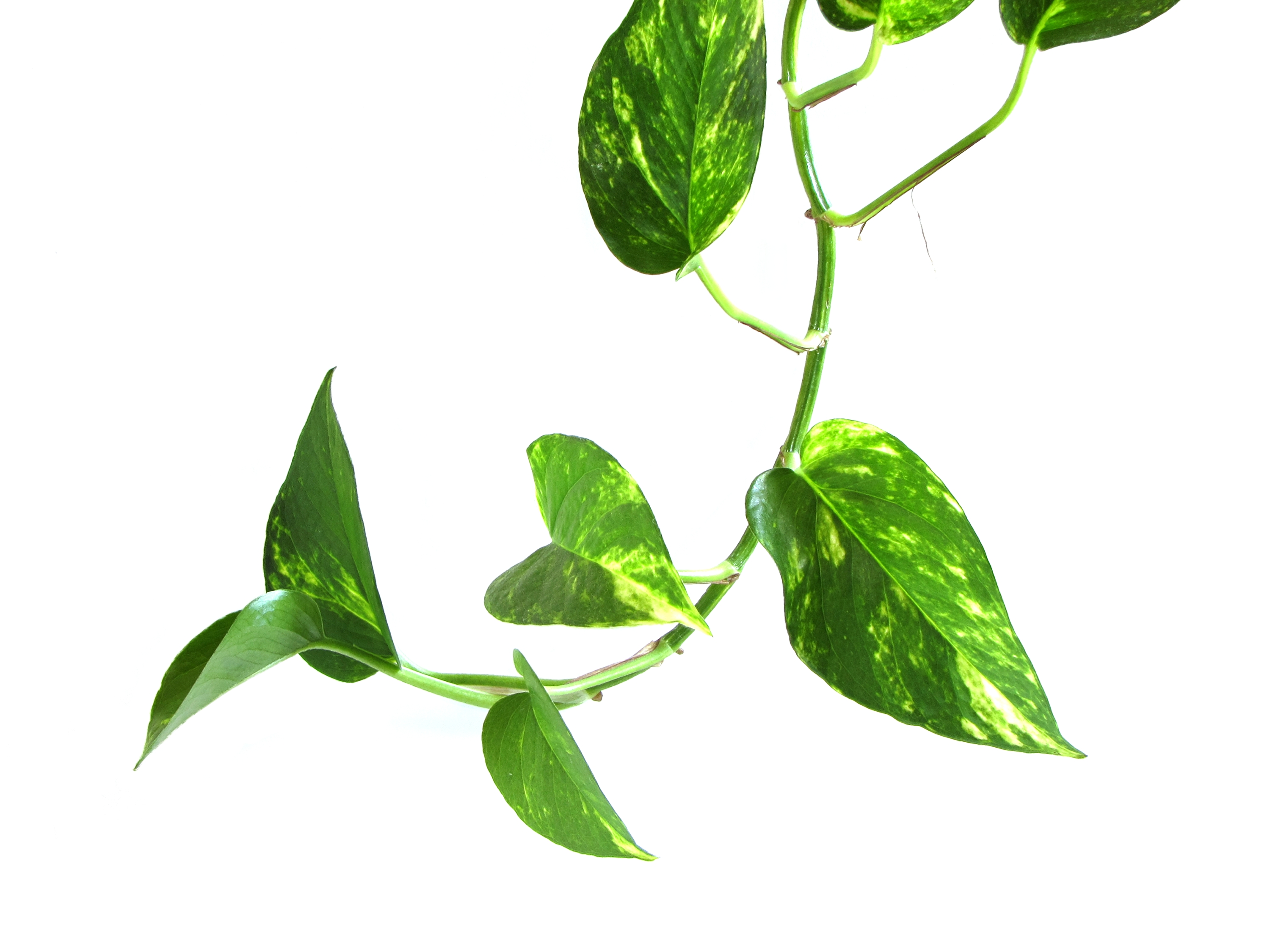 Devil's ivy (Epipremnum aureum). Knots are visible on the stem though appears to be juvenile.